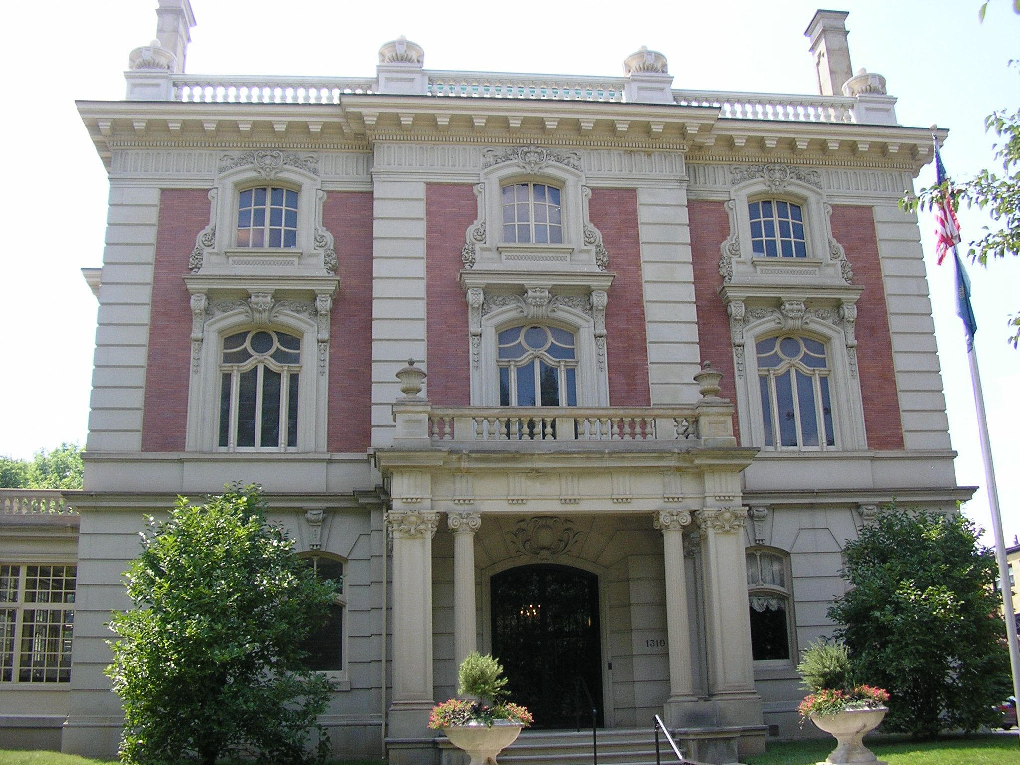 Filson Club building in Louisville, KY